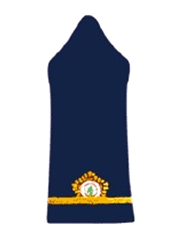 Lebanese Army's Insignia of Warrant Officer (Non-commissioned Officer Rank)